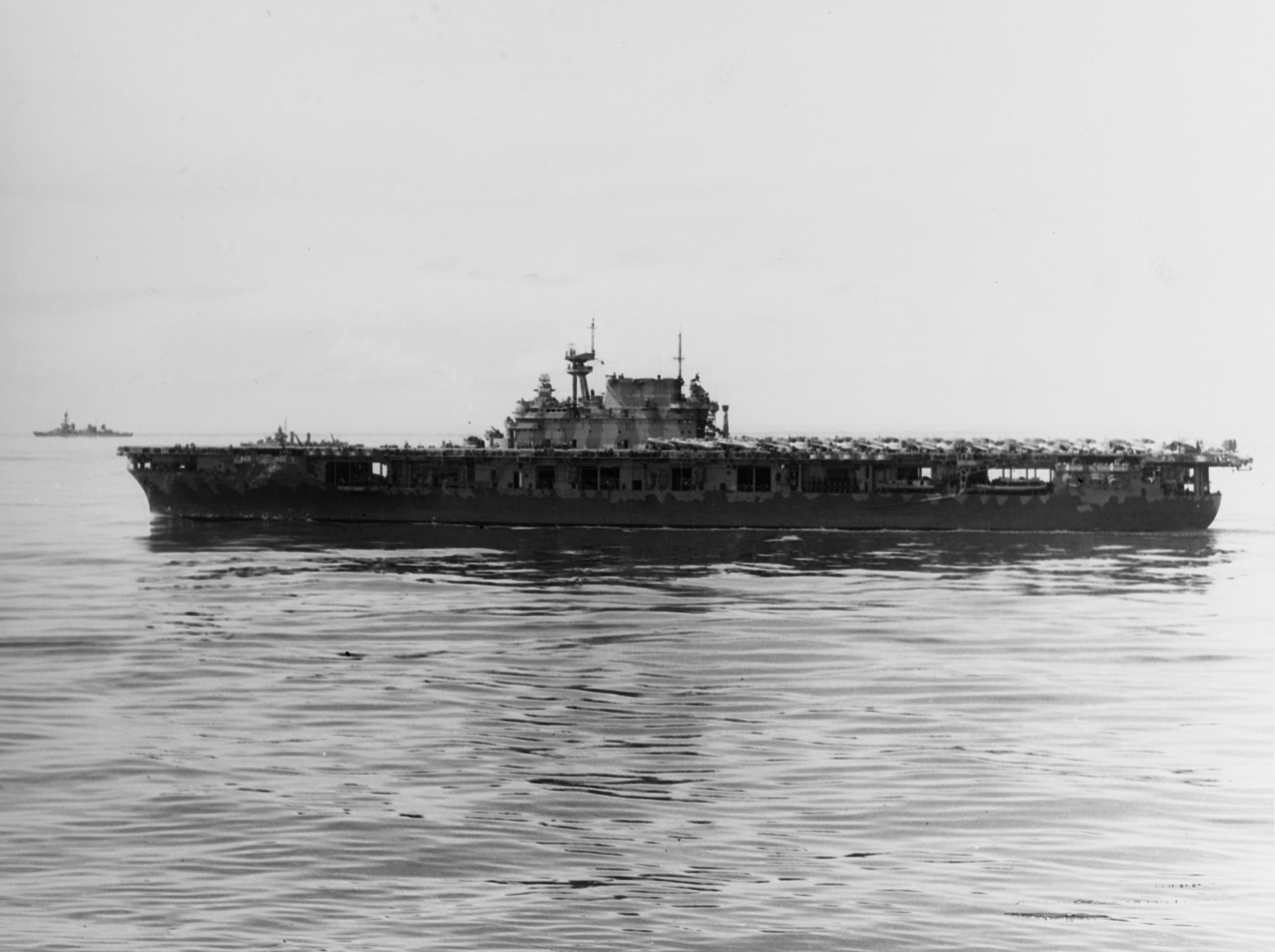 The U.S. Navy aircraft carrier USS Hornet (CV-8) underway in the Southern Pacific, 15 May 1942, a week after the Battle of the Coral Sea and the day before she was recalled to Pearl Harbor to prepare for the Battle of Midway. A heavy cruiser and a destroyer are visible on the left.